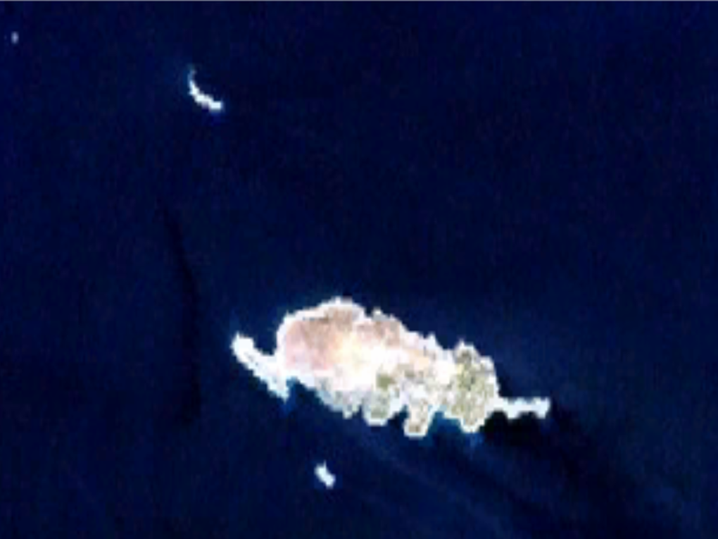 The islands Pitta, Kalolimnos and Prasso, Dodecanese, Greece, 37.0610E 27.0869N